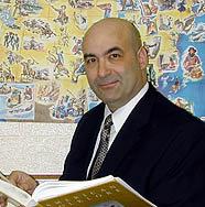 Photo of Simon Bronner in his office at Penn State Harrisburg, 2009. He is holding a copy of American Folklore: An Encyclopedia edited by Jan Brunvand and behind him is a map of the USA showing folklore and legends.